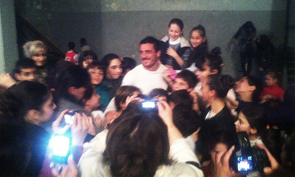 World Champion Rati Tsiteladze is visiting school and interacting with fans